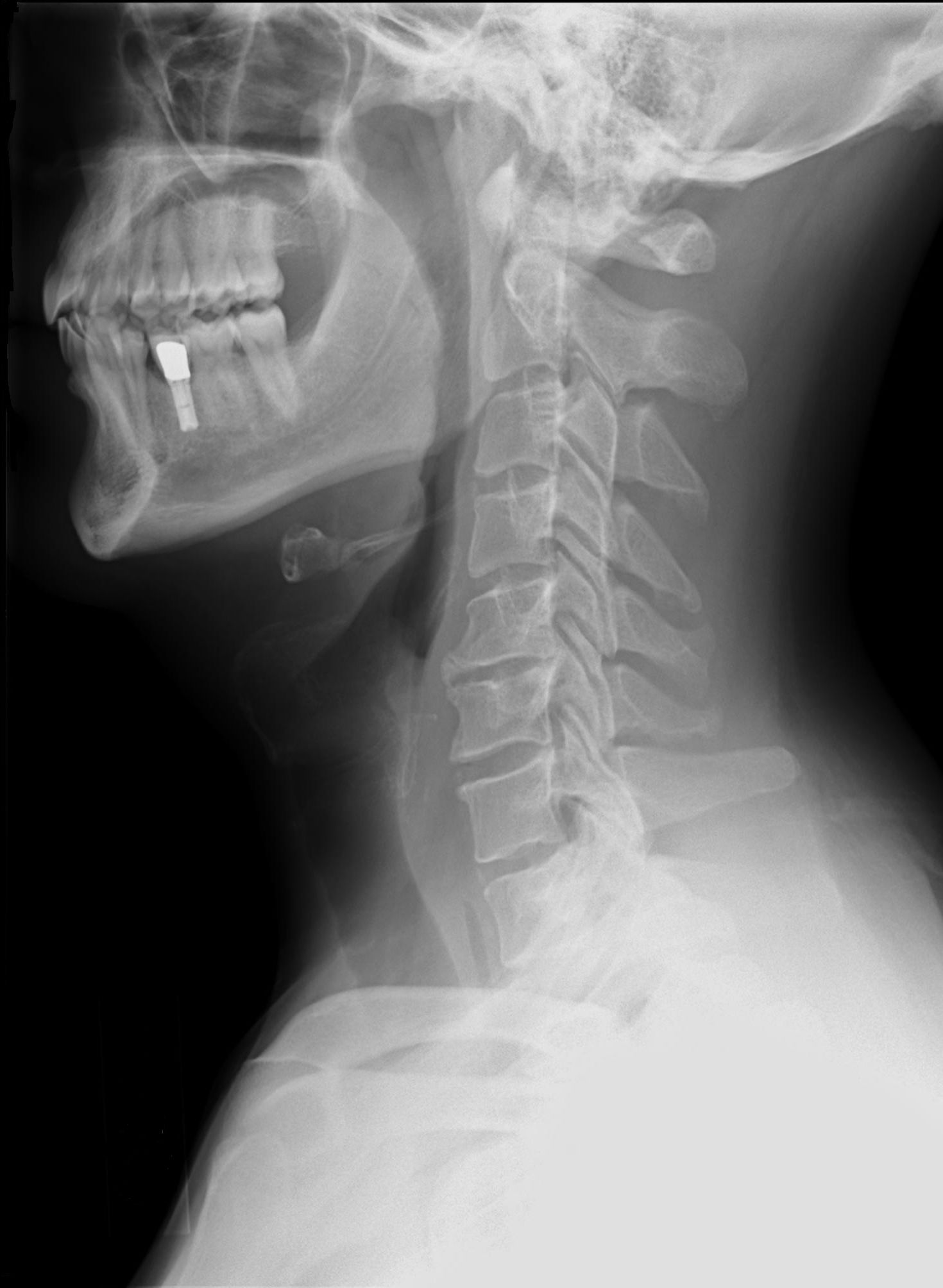 X-ray of cervical spine (neck) lateral (side) view. This series of x-rays were part of pre-surgical evaluation to help identify spinal instability. Patient is a 37 year old male with a history of multiple neck traumas with pain and muscle spasms and dental implant in lower jaw. Excerpt from radiologist's report: FINDINGS: Five views of the cervical spine, including flexion and extension, were performed. There is no evidence of fracture, bone destruction, or malalignment. There are degenerative bone and is changes at C5-6. There is no evidence of cervical instability on the flexion and extension views. The facet joints are well aligned. Bony spurring is narrowing the C5-6 neural foramina bilaterally. IMPRESSION: Degenerative changes at C5-6. No evidence of instability.